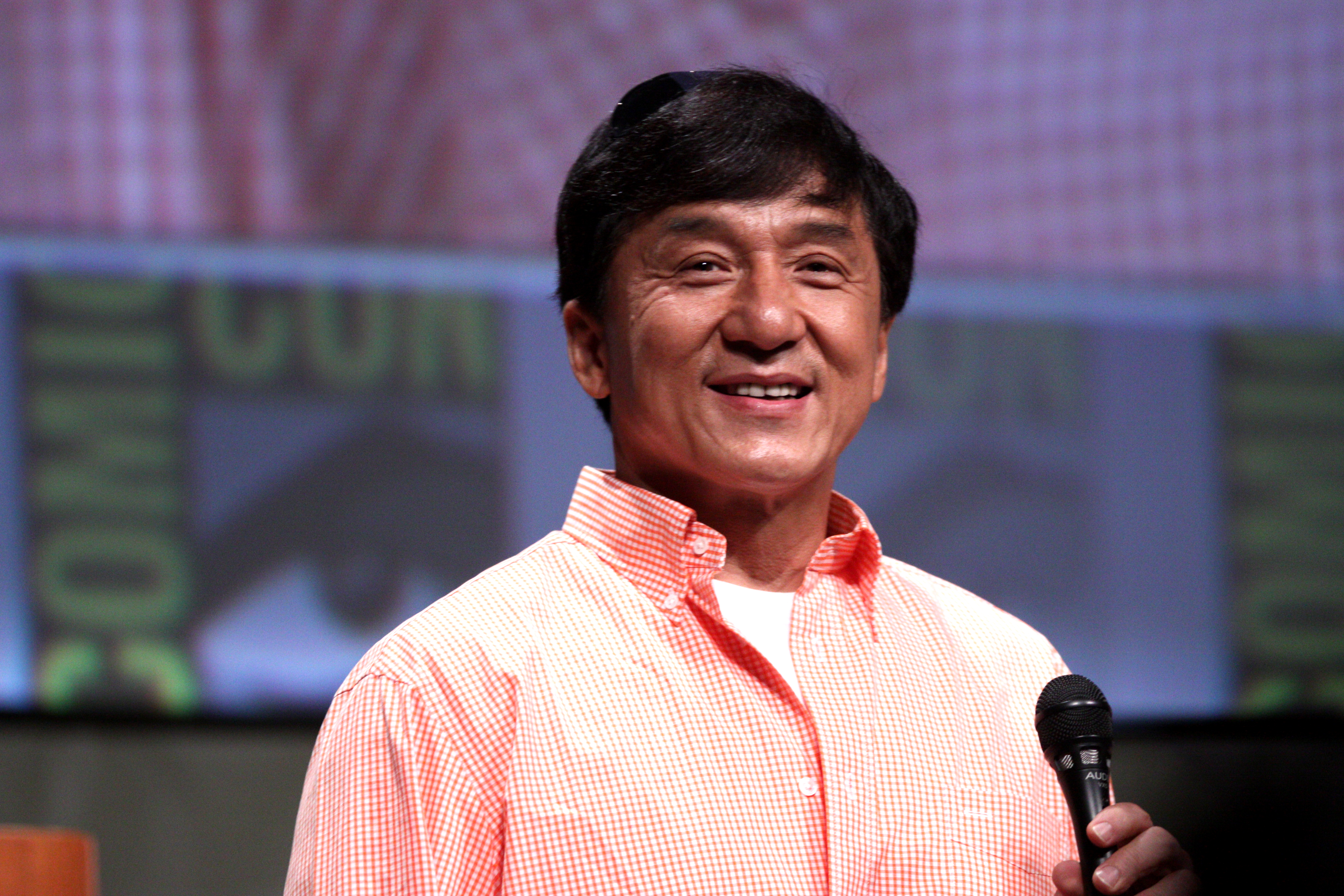 Jackie Chan speaking at the 2012 San Diego Comic-Con International in San Diego, California.